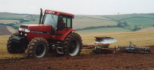 Ploughing At Portlemore Barton, Malborough.